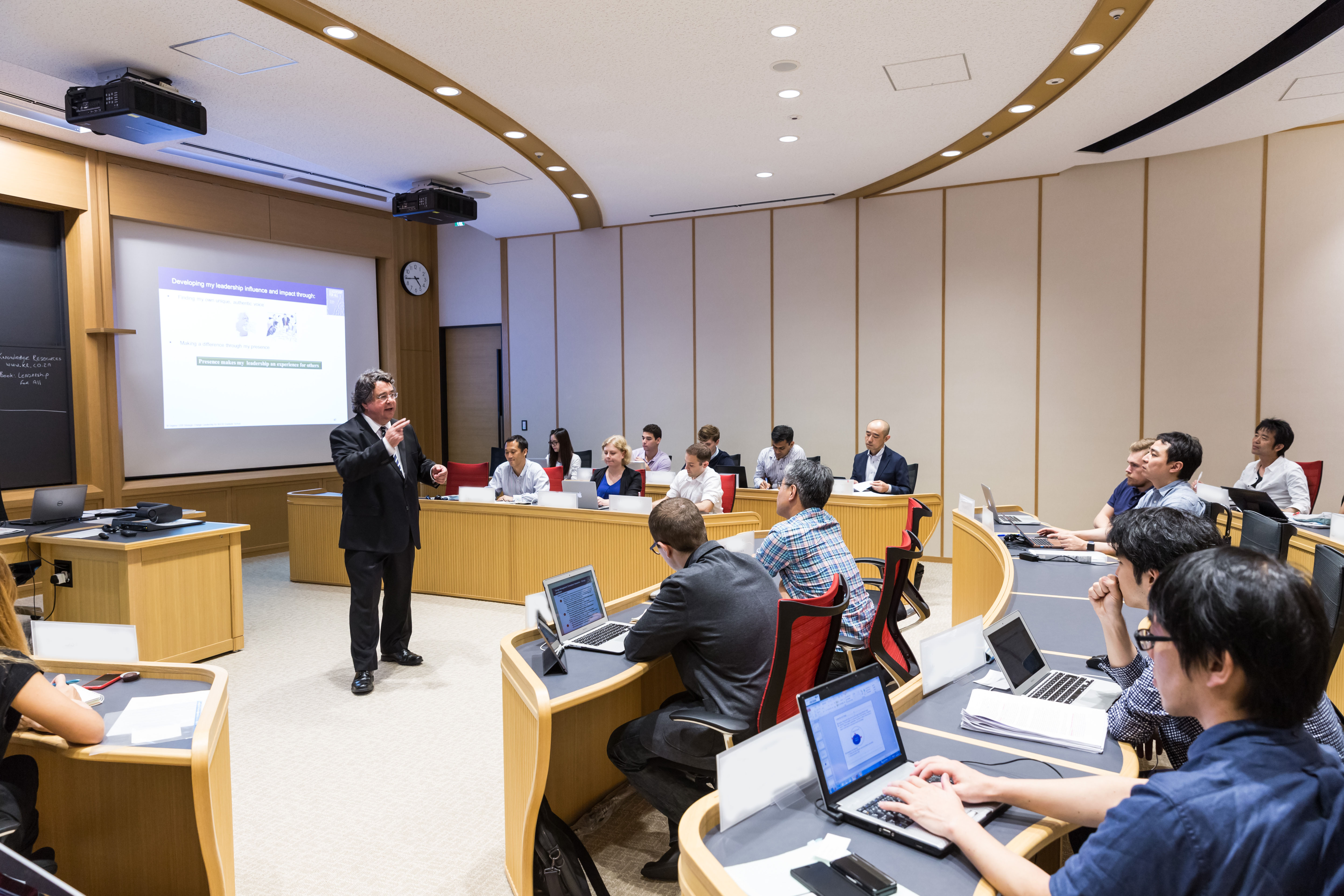 Photo of a Leadership class at NUCB.